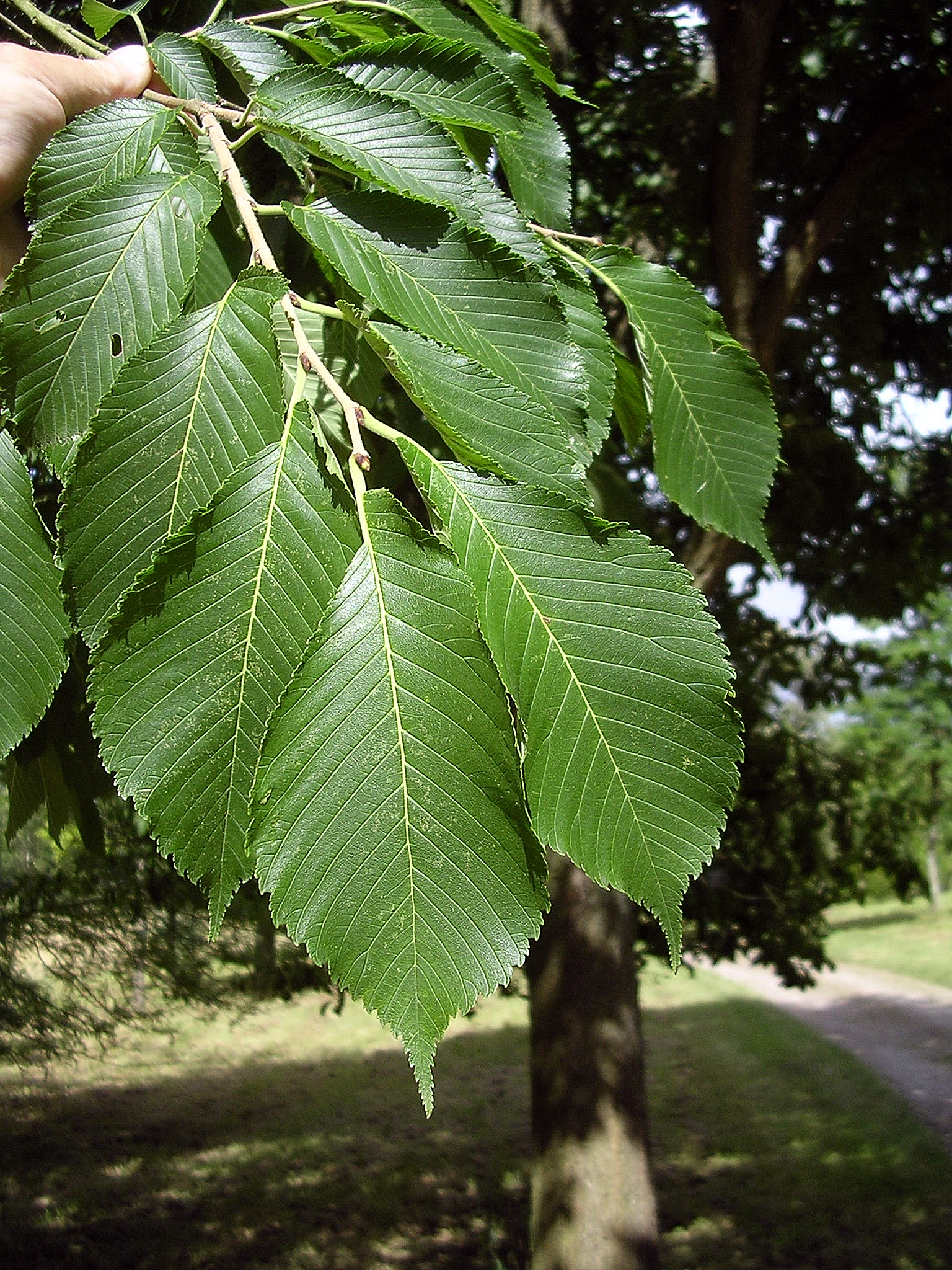 Photo taken by author, July 2006